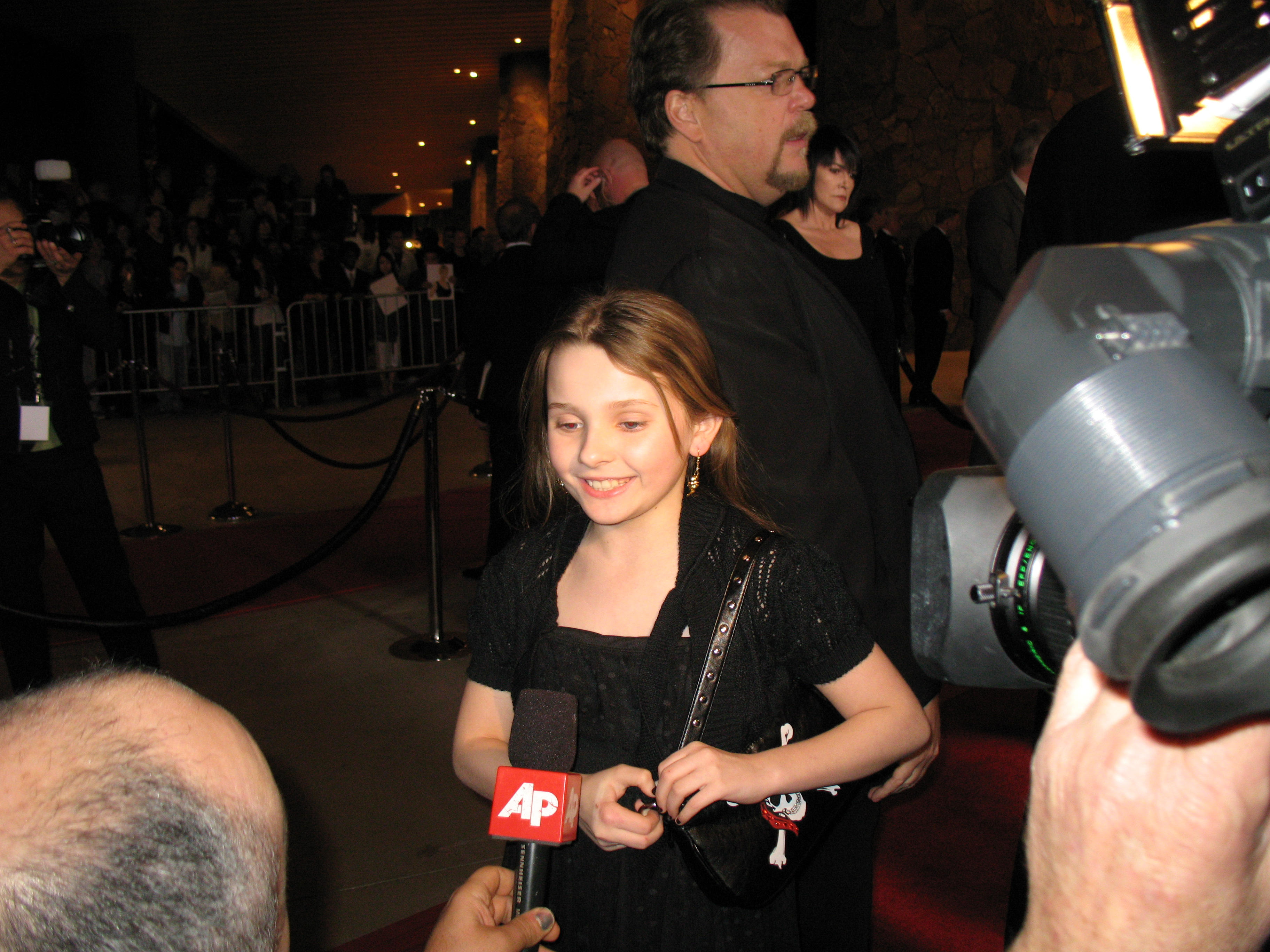 Picture of Abigail Breslin, American actress. depicted person: Abigail Breslin (age: 10.73)